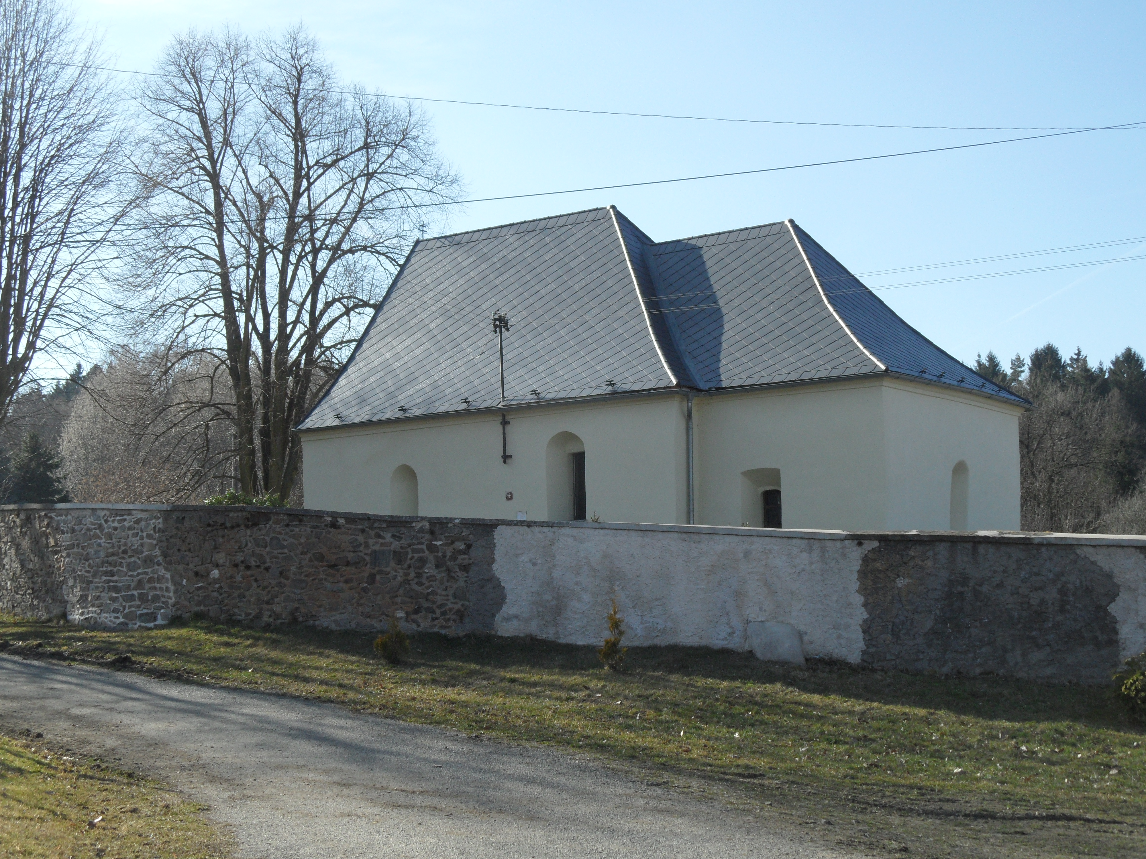 Michalovice (Petrovice I) A. Church of Saint Matthias. Kutná Hora District, the Czech Republic.